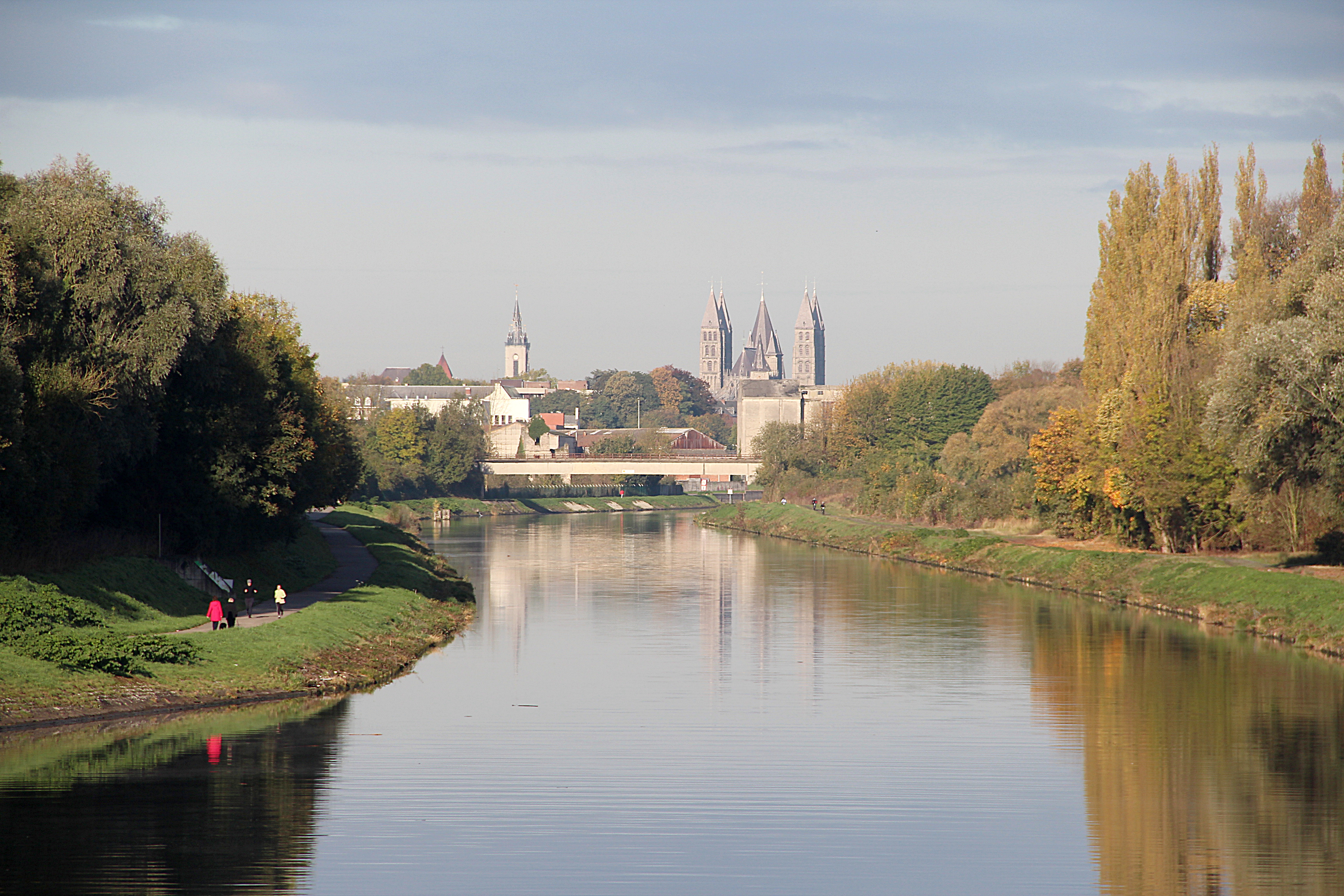 Tournai (Belgium), the Scheldt, the belfry en the Tournai CathedralCathedral of Our Lady.